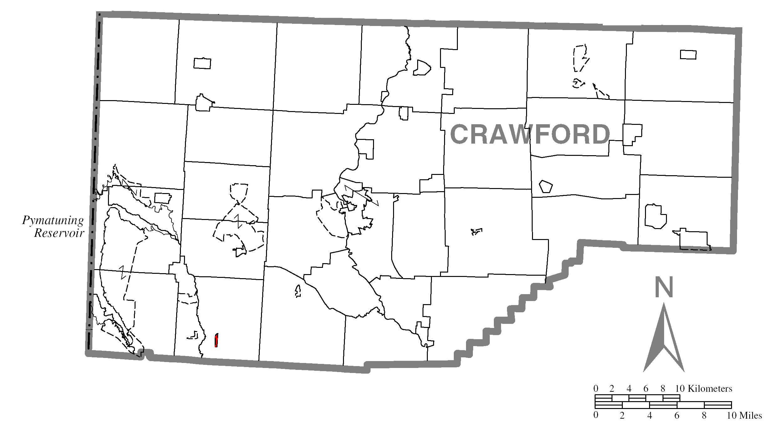 Map of Crawford County higlighting Atlantic.